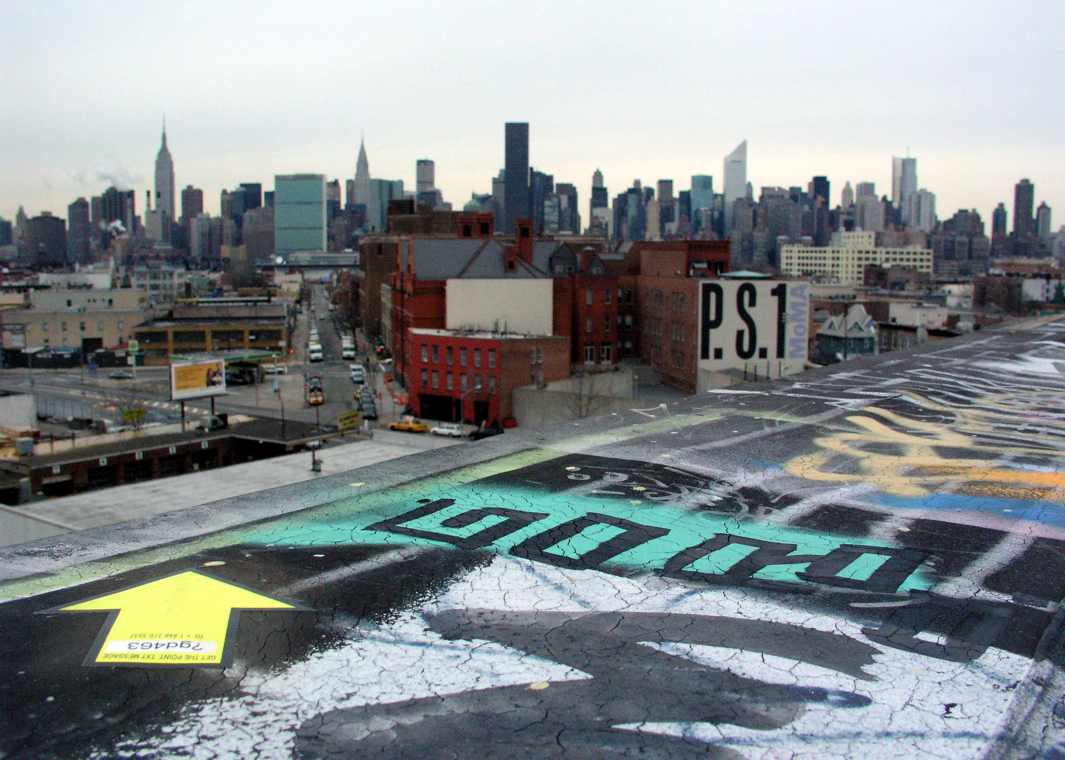 An example of a Yellow Arrow. Placed and photographed by Jesse Shapins in Queens in 2004.